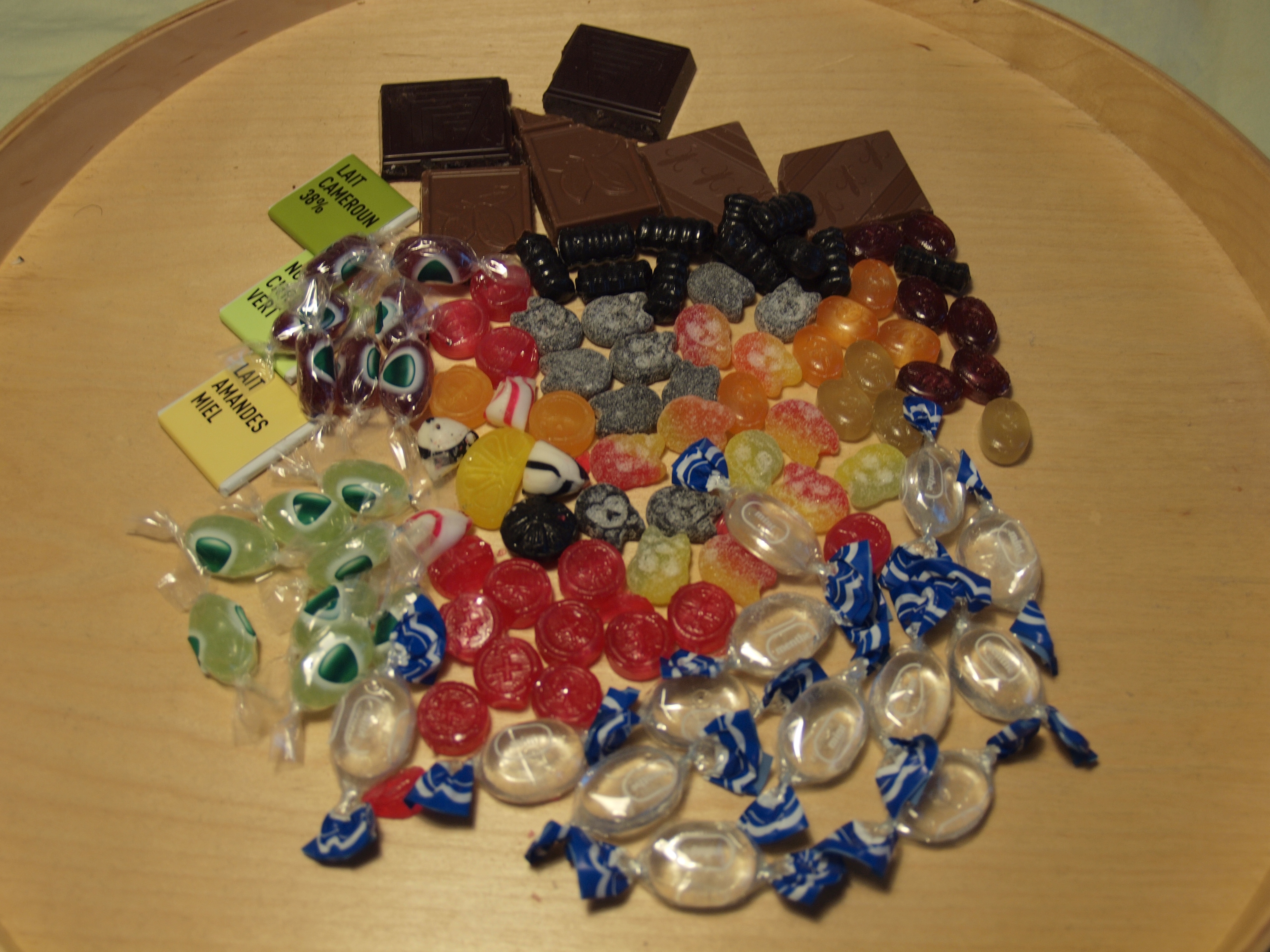 A collection of various types of candy, from Austria, Denmark, France and Sweden, mixed and displayed on a wooden tray.